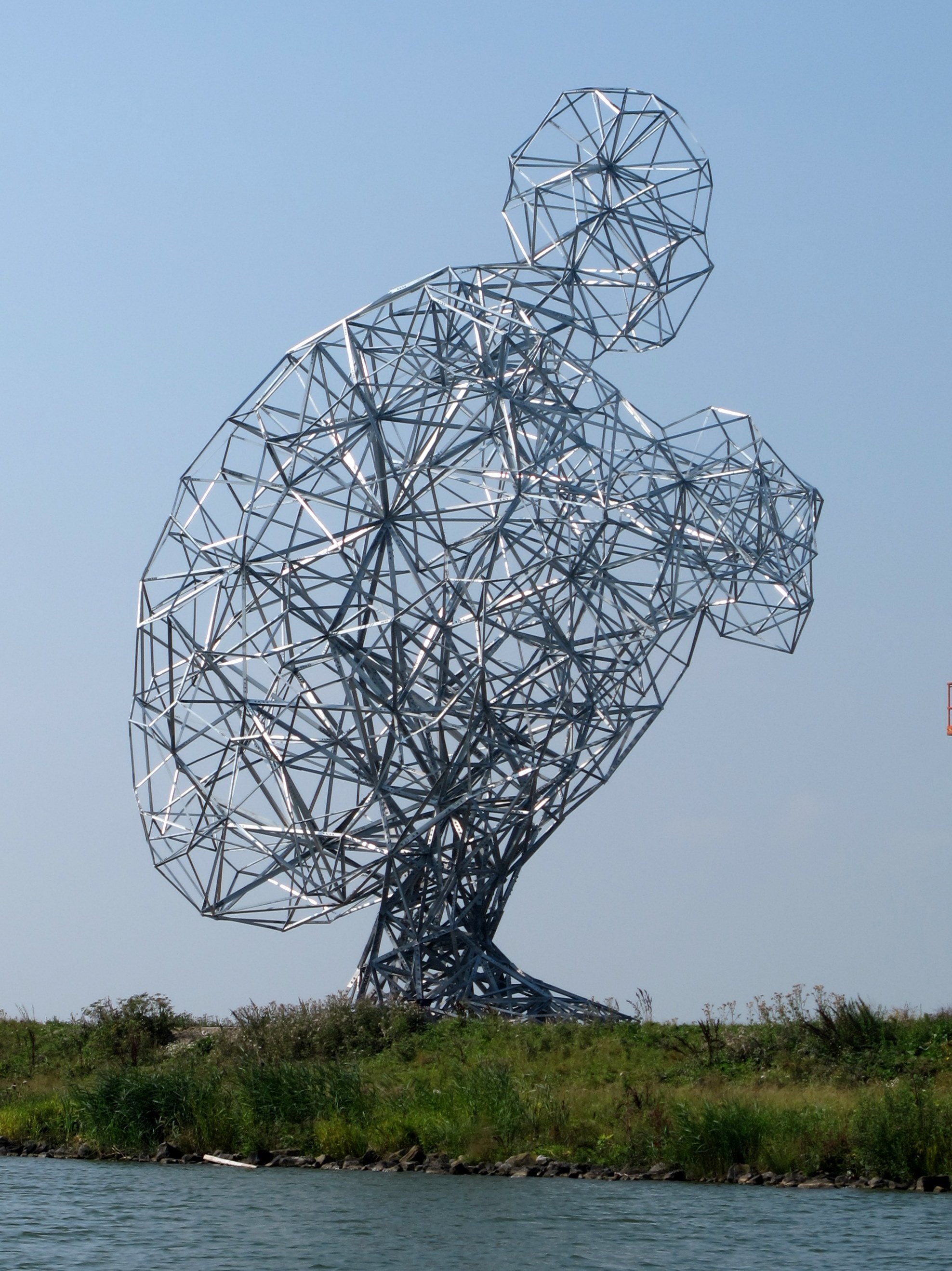 Sculpture Exposure (2010) by Antony Gormley in Lelystad/The Netherlands. This photo was taken on August 14, 2010 in Haven van Lelystad, Lelystad-Haven, FL, NL, using a Canon PowerShot G11.